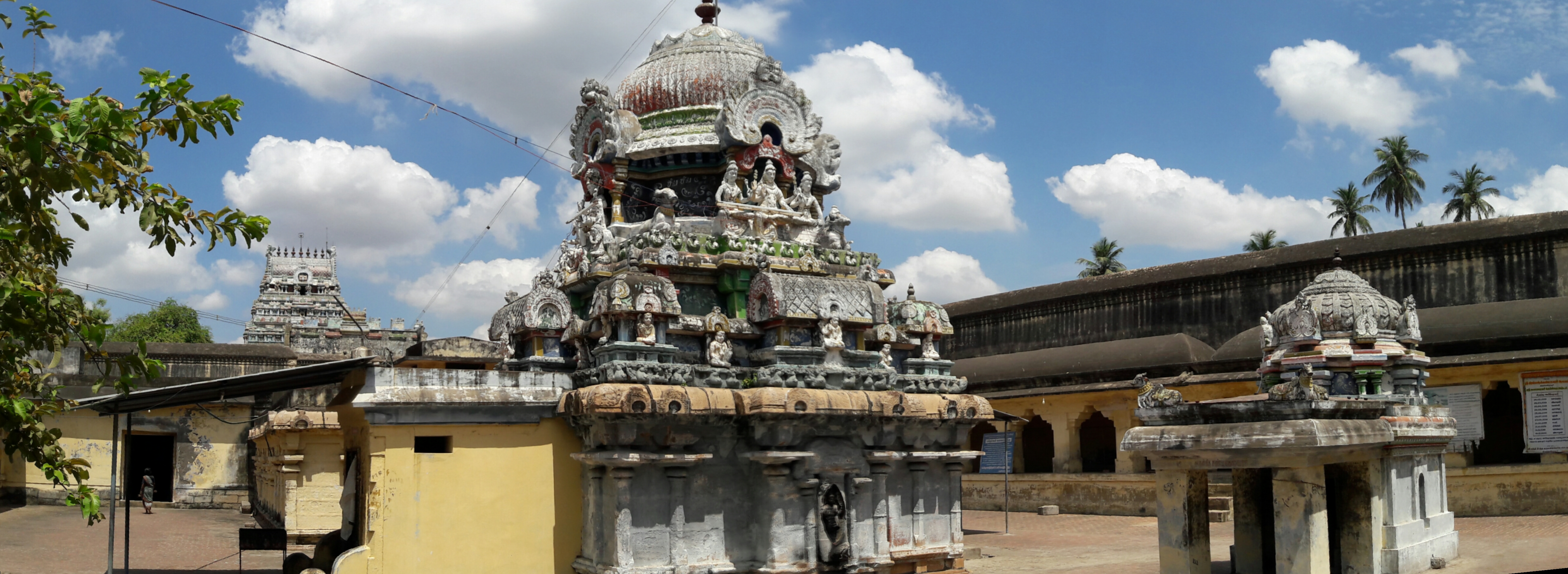 Brahma Kandeeswarar temple Thirukandiyur